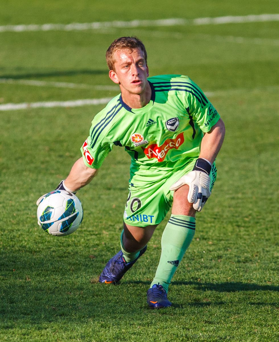 Lawrence Thomas playing in a pre-season game between the Central Coast Mariners and Melbourne Victory on 16/09/2012.